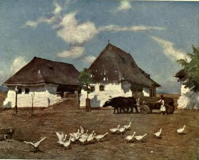 Typical peasant cotages in the Hungarian plain